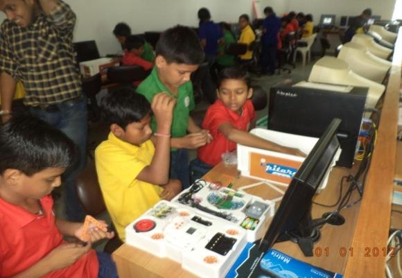 Students of EMRS doing experiments in Science lab